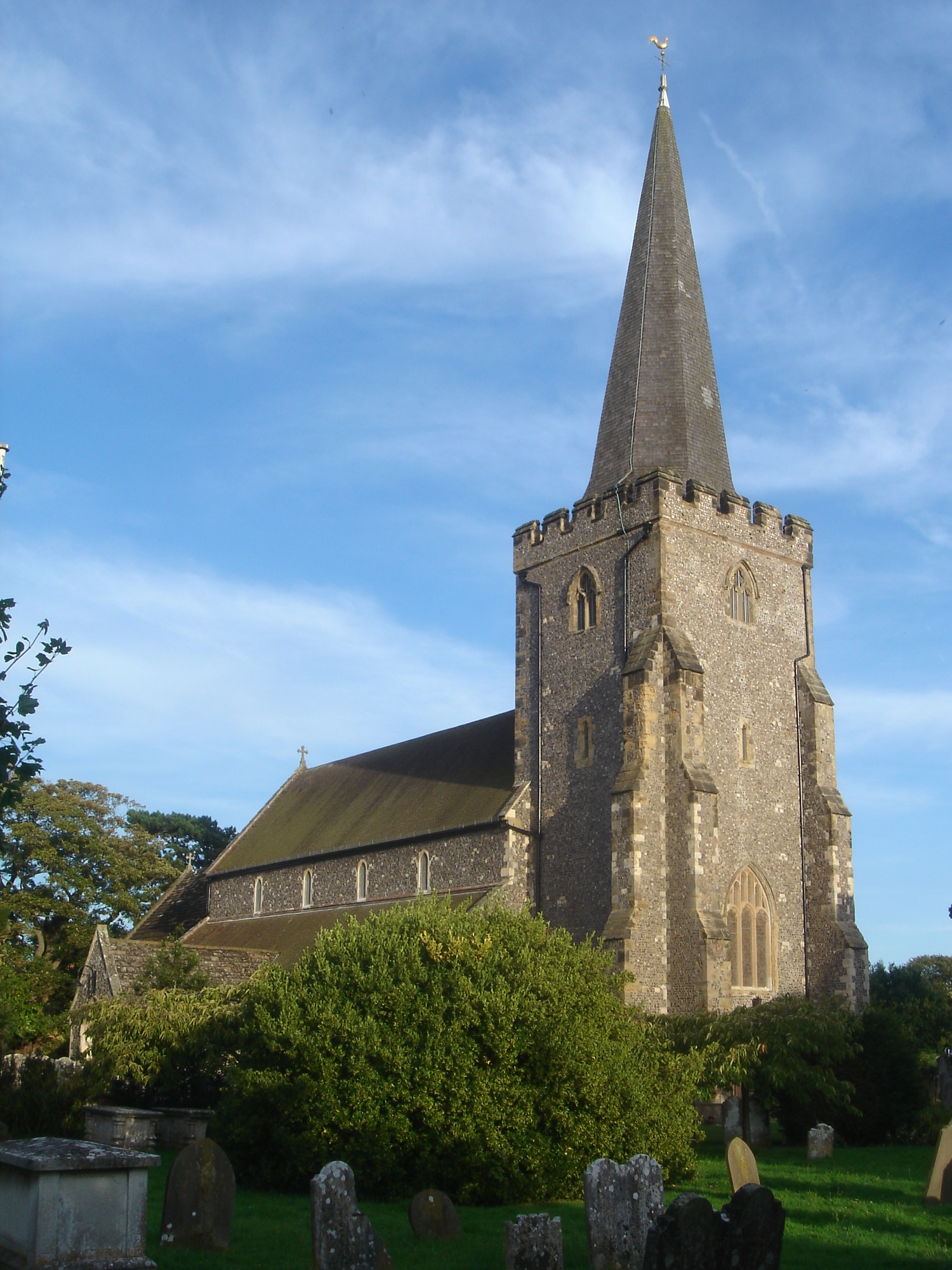 St Andrew's Church, Church Road, West Tarring, Worthing, West Sussex, England. The parish church of West Tarring. Listed at Grade II* by English Heritage (IoE Code 302248)